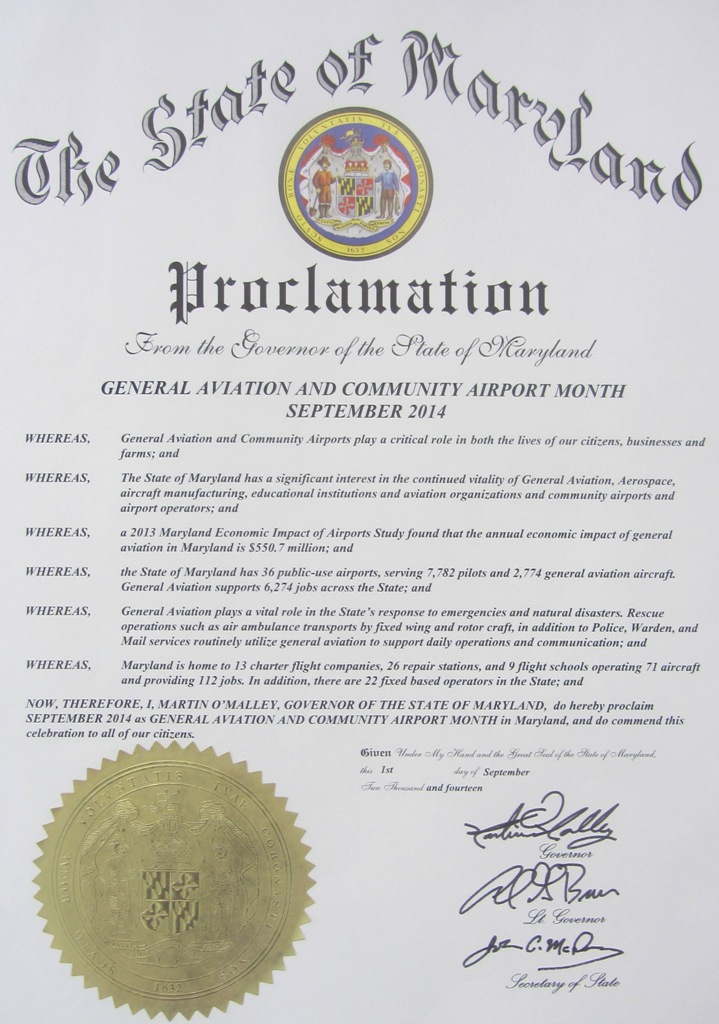 Maryland General Aviation Proclamation postings